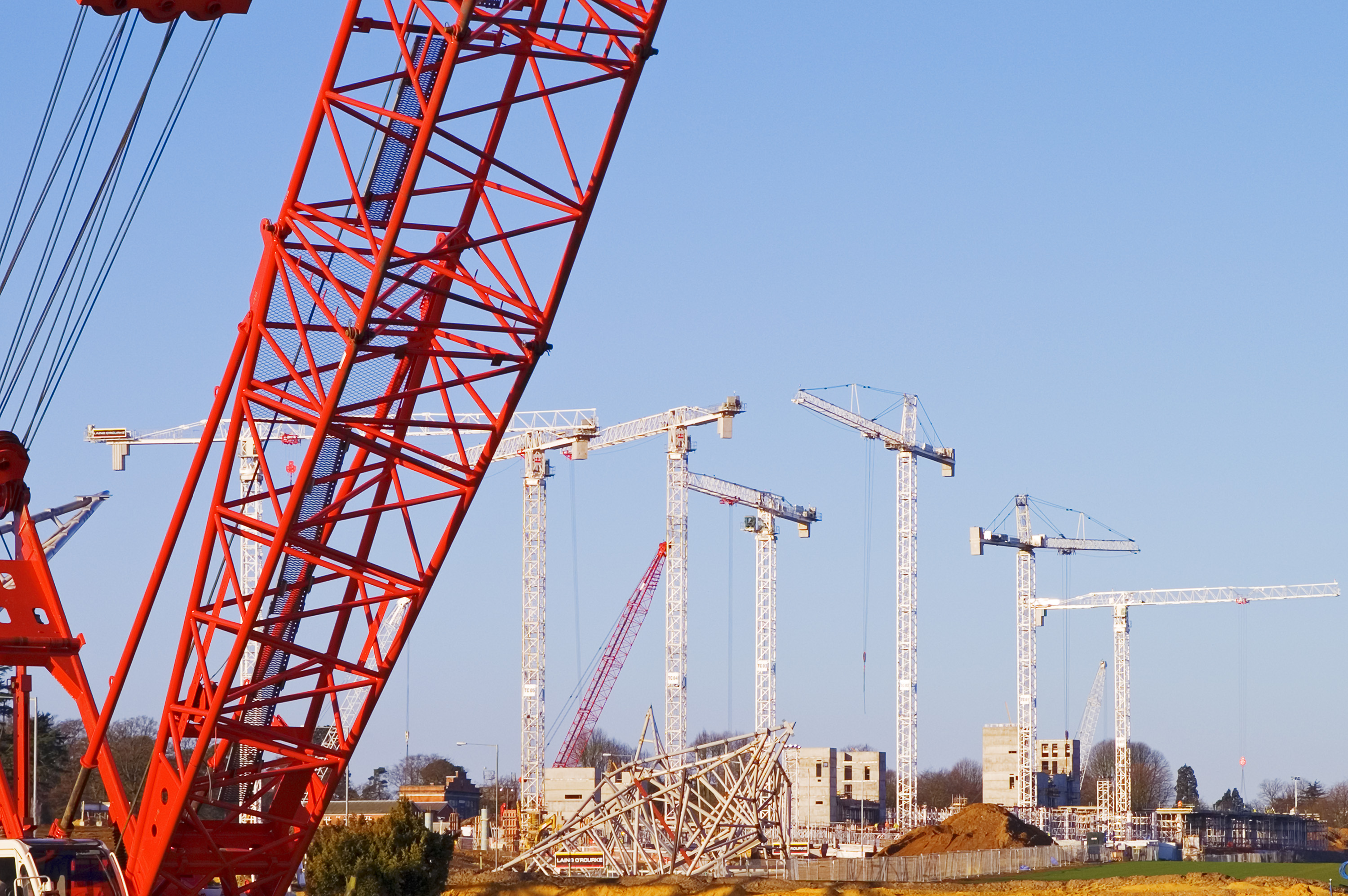 Tower cranes raising the new Ascot race goers stands during reconstruction in 2005